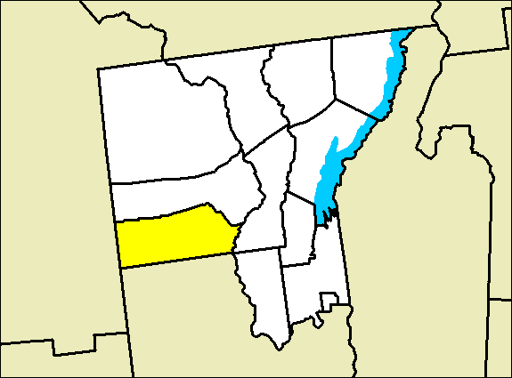 Map of Warren County, New York with town of Stony Creek highlighted.